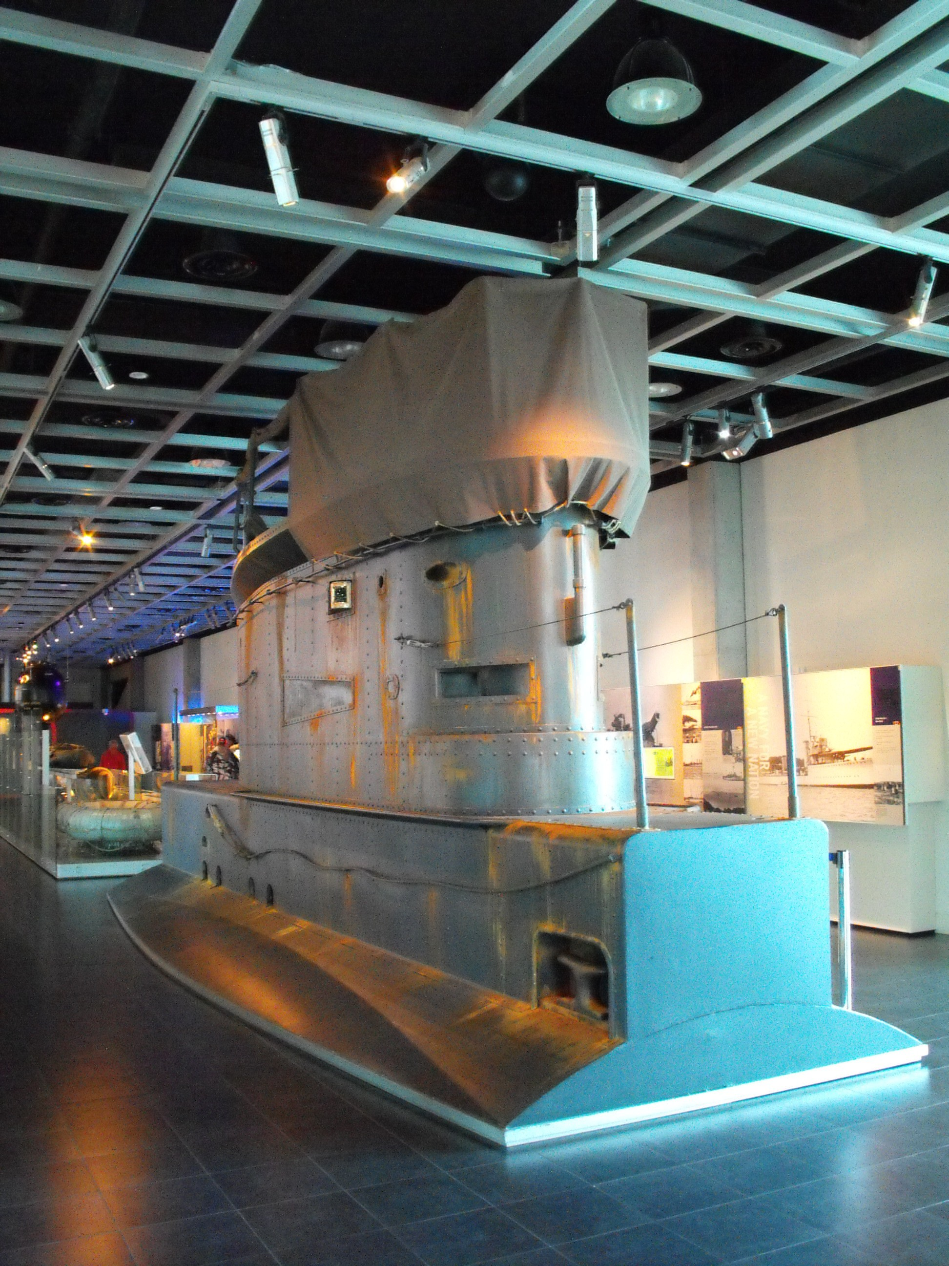 A replica of the conning tower of Australian submarine AE2, on display at the Western Australian Maritime Museum. The starboard side of the replica (depicted) shows the submarine as she looked in service